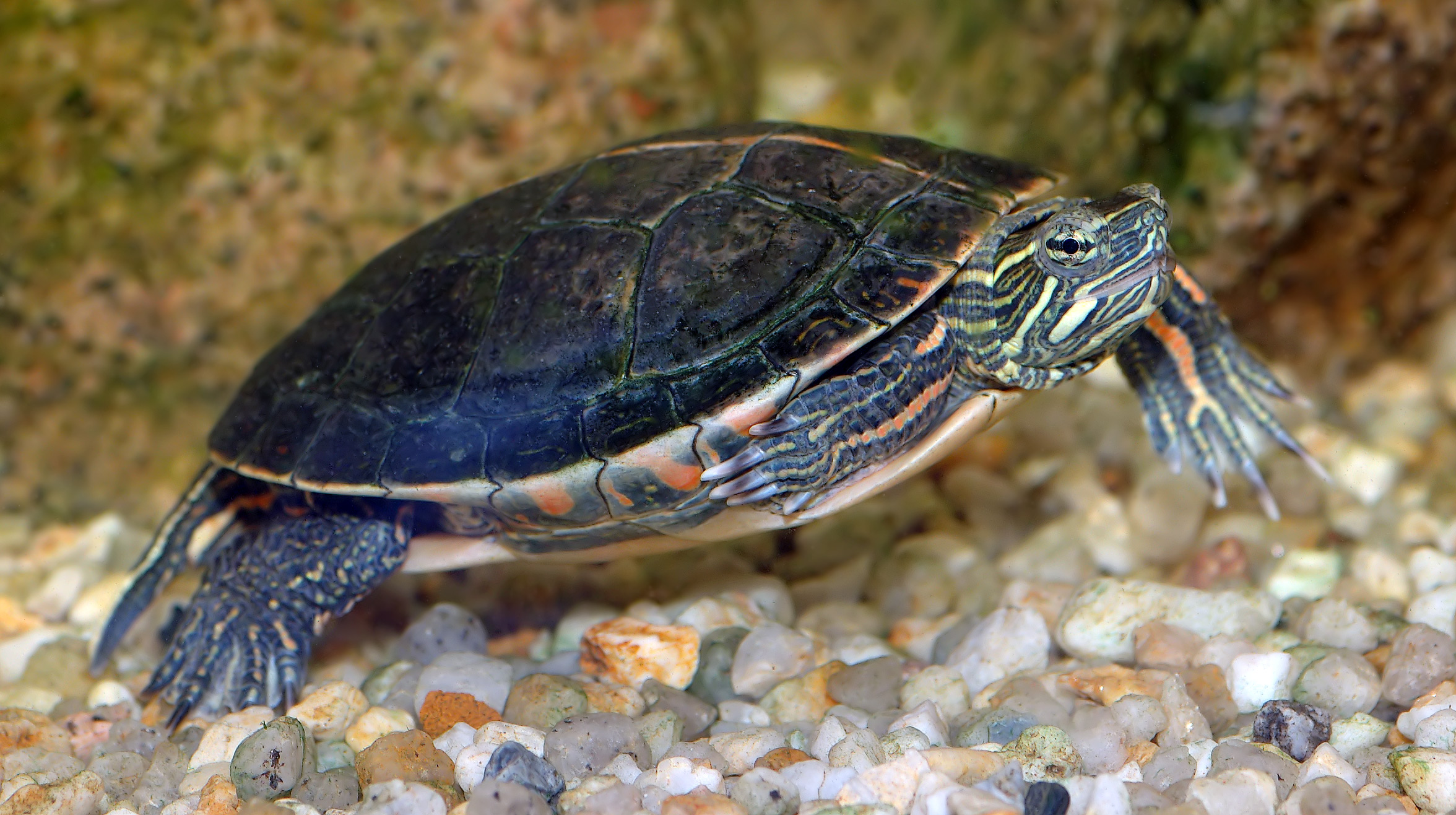 This image shows a male Southern Painted Turtle (Chrysemys picta dorsalis). Thanks to B kimmel, Fice and Der Meister for identifying this animal.